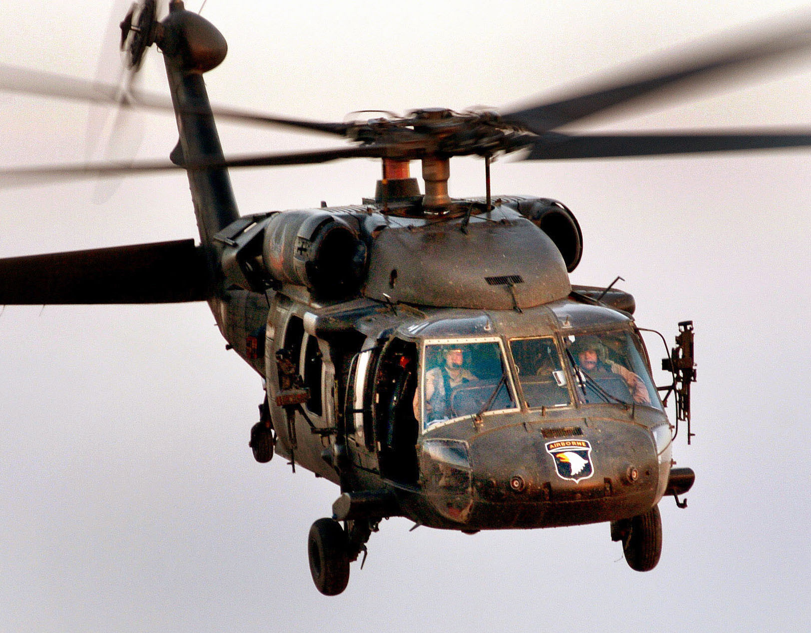 July 25, 2006 Soldiers in a UH-60 Black Hawk helicopter from 5th Battalion, 101st Aviation Regiment, provide support to Iraqi and U.S. ground troops in Salah Ad Din Province, Iraq. This photo appeared on